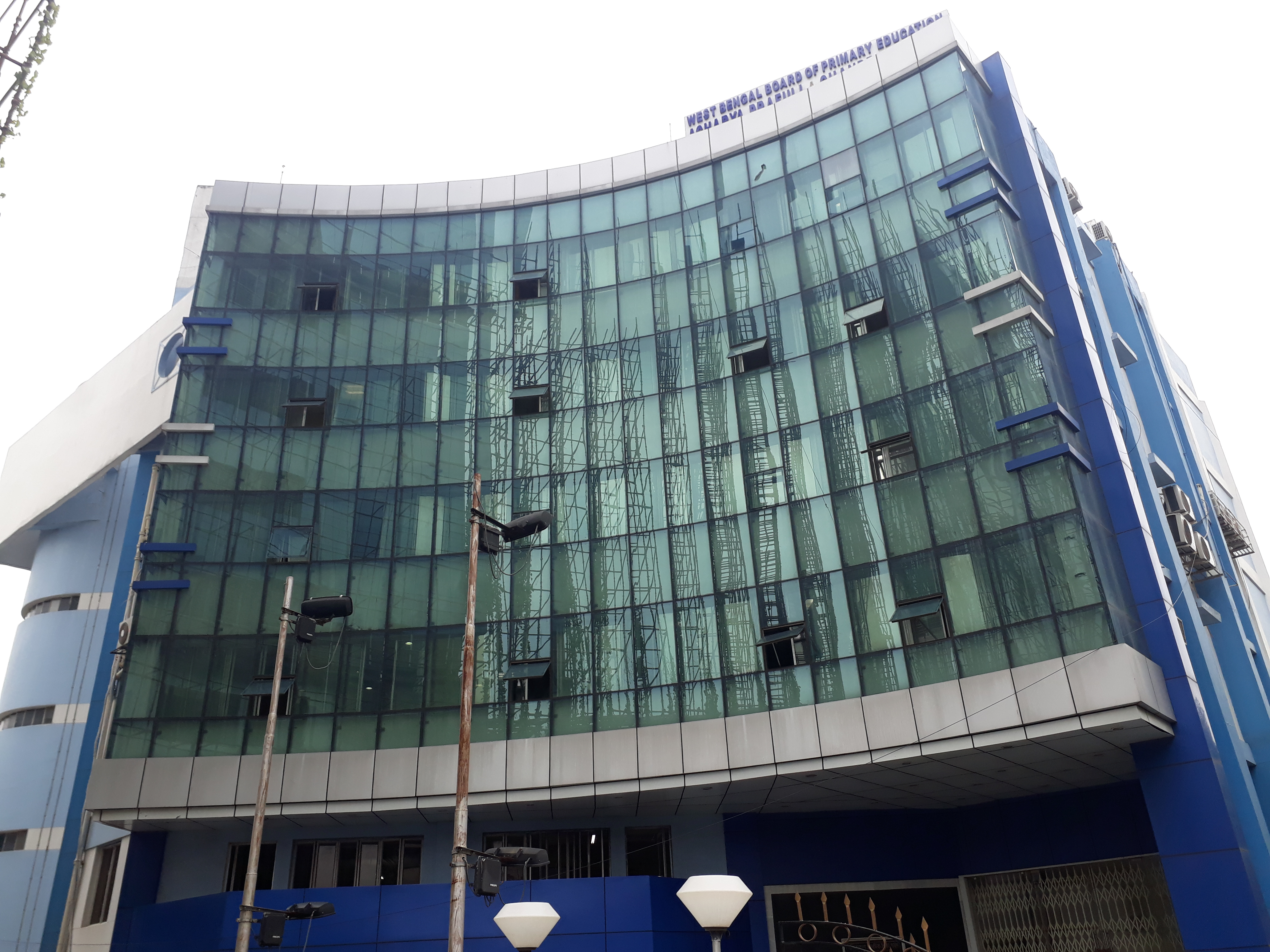 West Bengal Board of Primary Education Office at Salt Lake Karunamoyee. Kolkata